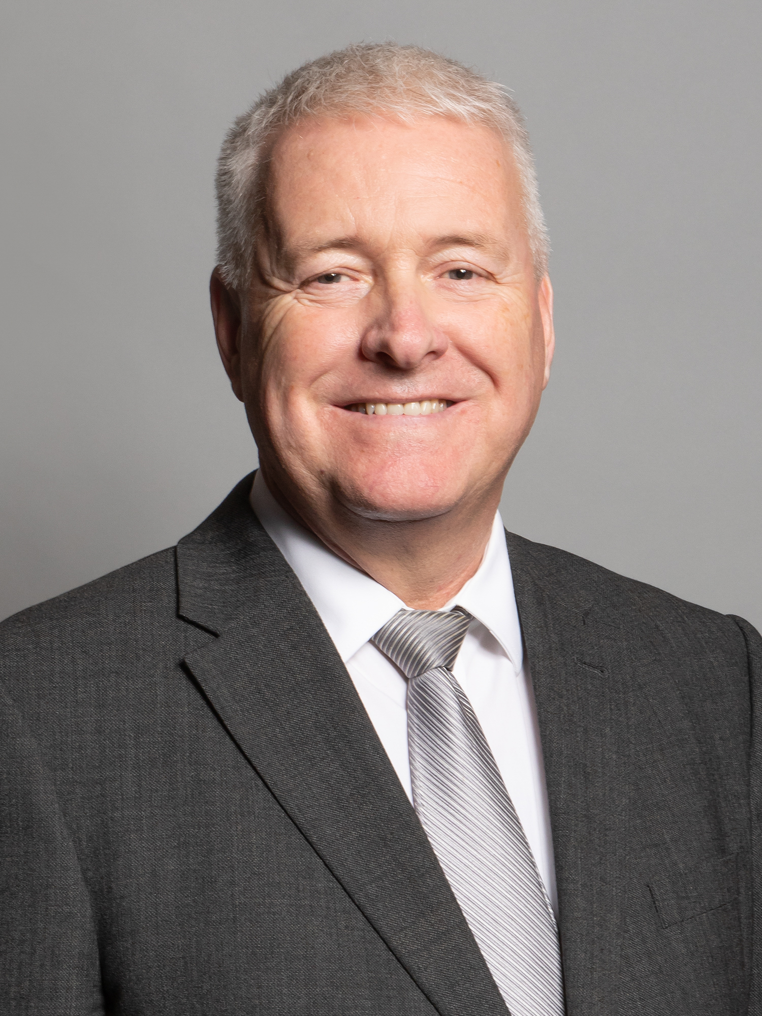 Official portrait of Ian Lavery MP 3×4 portrait of Ian Lavery